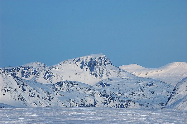 Snota 1668 seen from Vassnebba/Grånebba 1305.